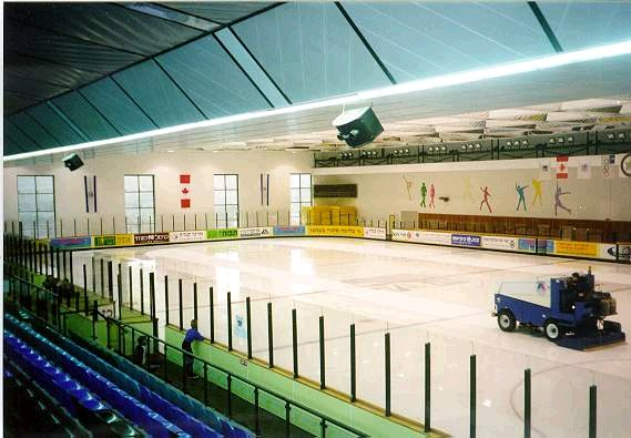 Ice rink at the Canada Center, Metulla, Israel. As of 2010, it is Israel's only Olympic-size rink.